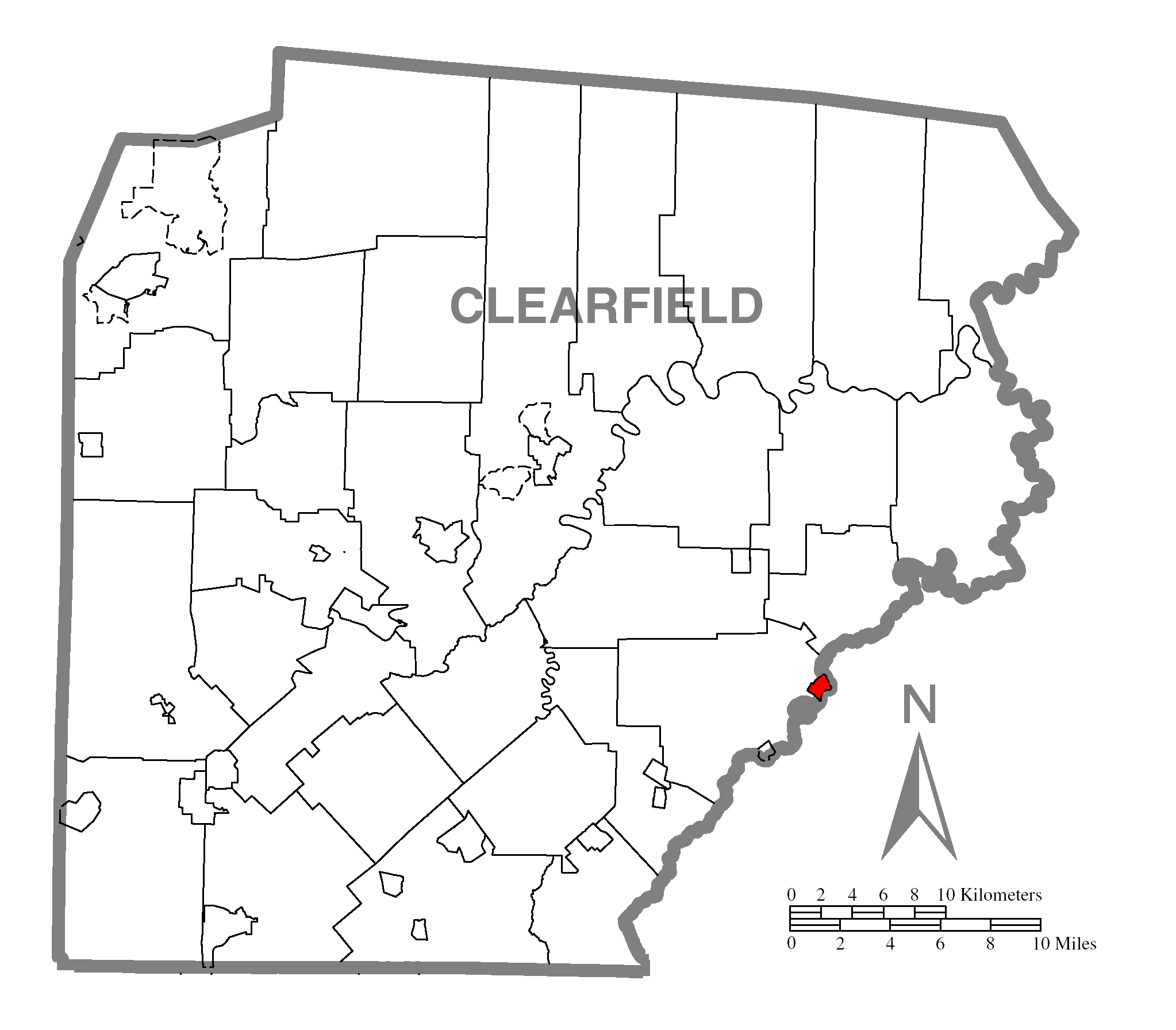 A map of Clearfield County showing Chester Hill, Pennsylvania (alternate) highlighted on the map.